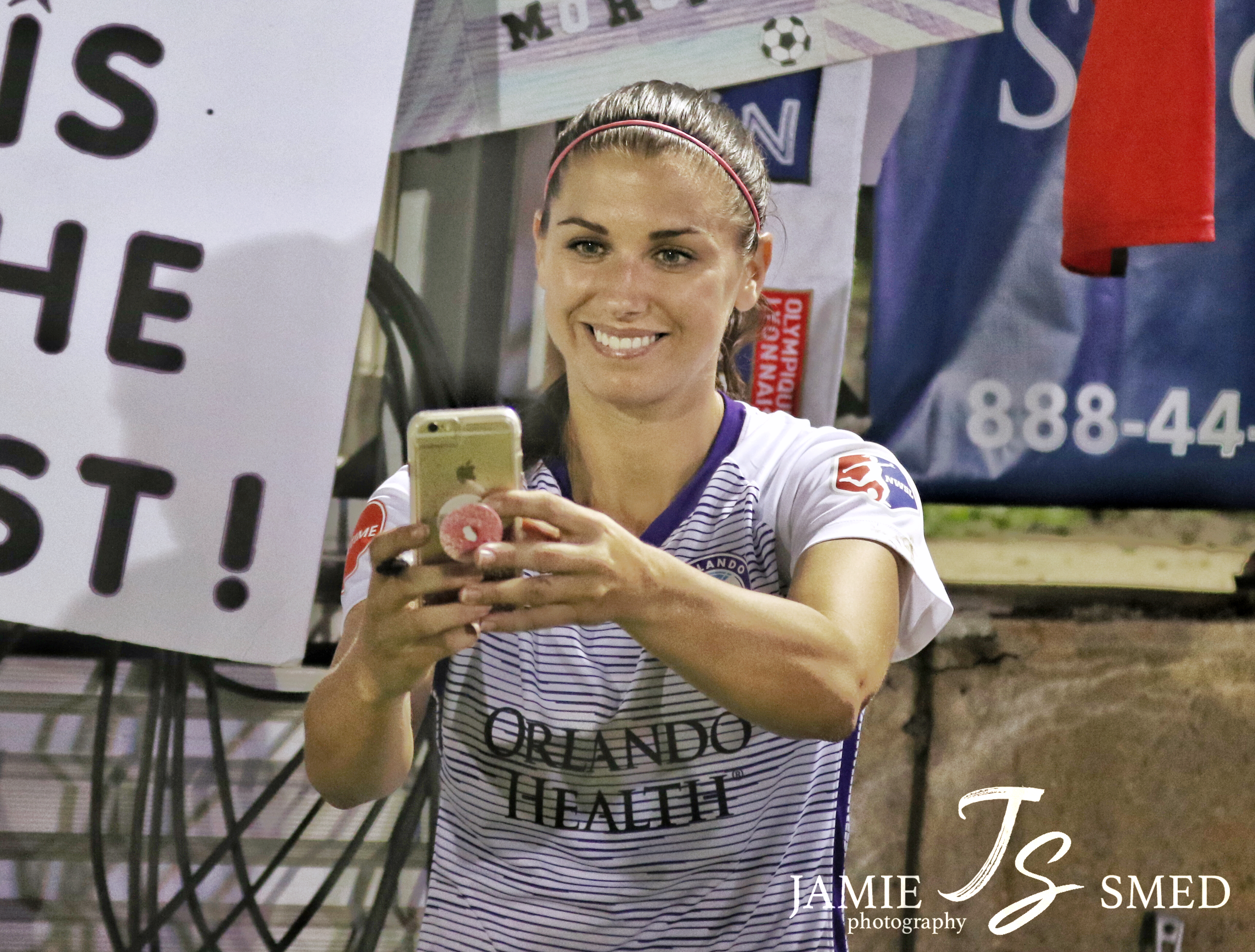 Washington Spirit vs Orlando Pride, 23 June 2018, Maryland SoccerPlex, Boyds, MD